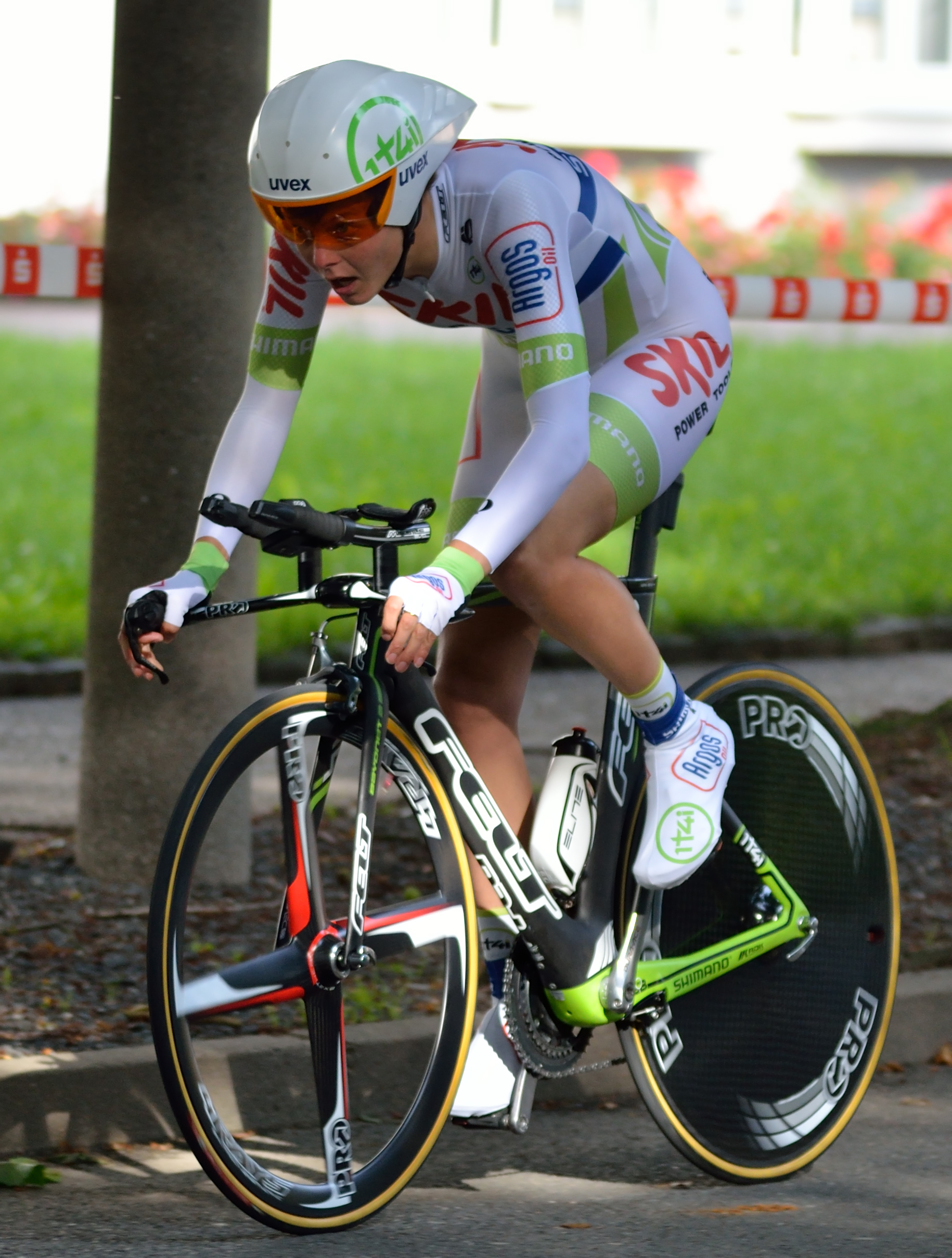 Adrie Visser from the Skil-Argos team during the Women's Tour of Thuringia 2012 in Zwickau, Germany.